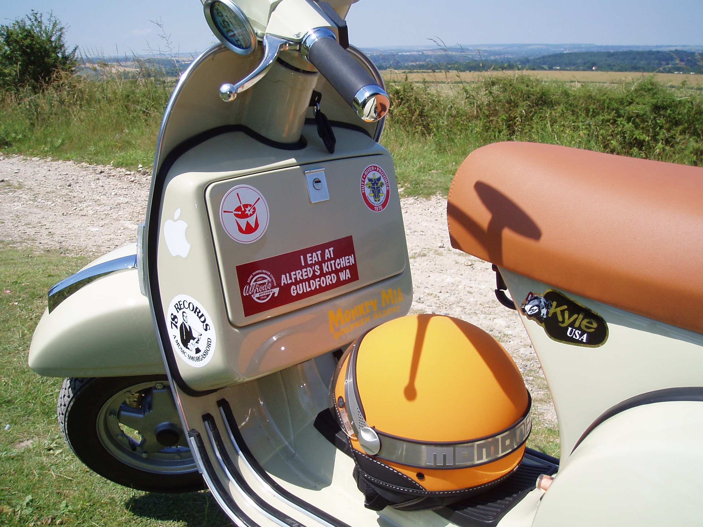 Kyle Thompson, Pepper Box Hill, Salisbury, Wiltshire, 2005